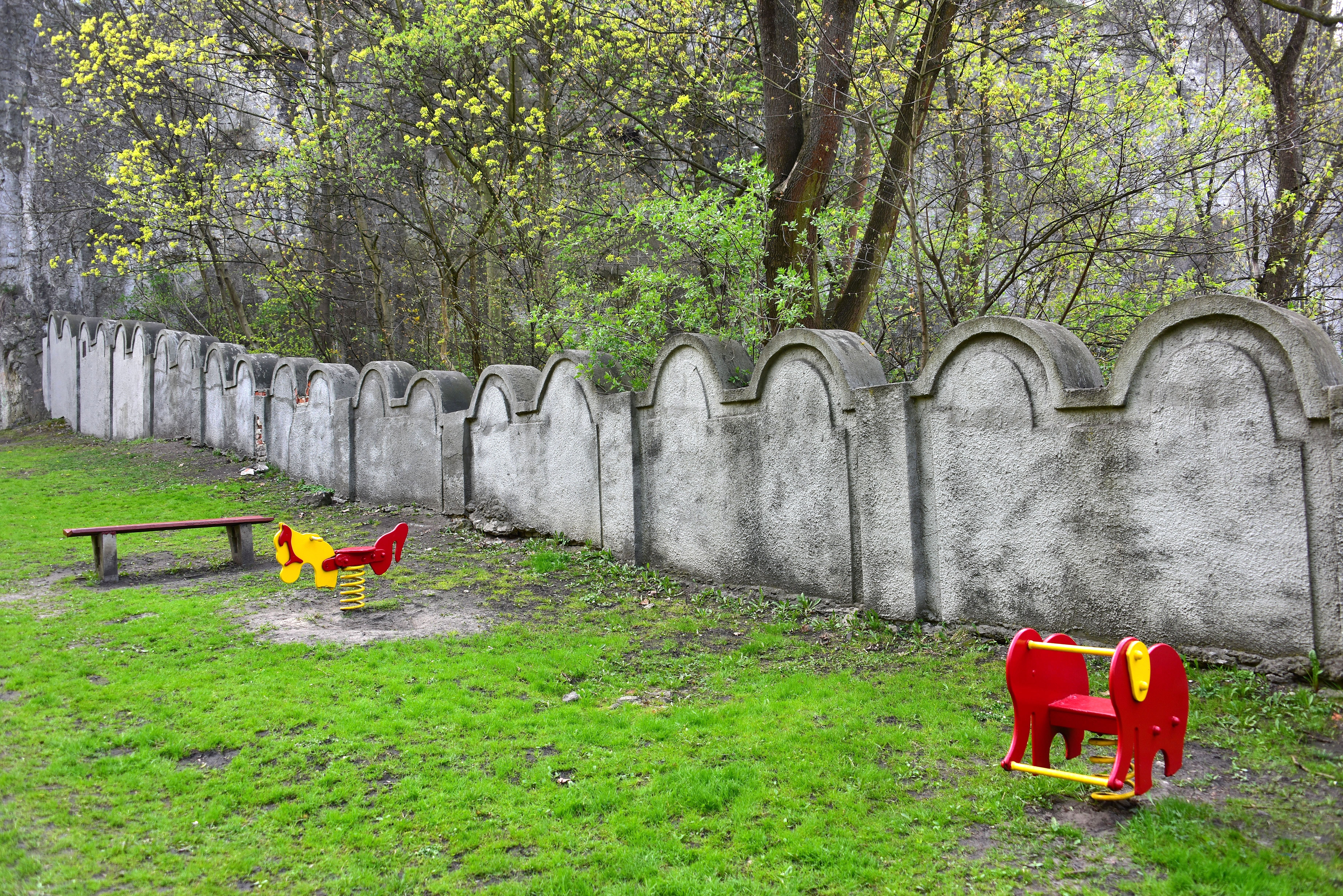 Kraków Ghetto Wall at 62 Limanowskiego Street